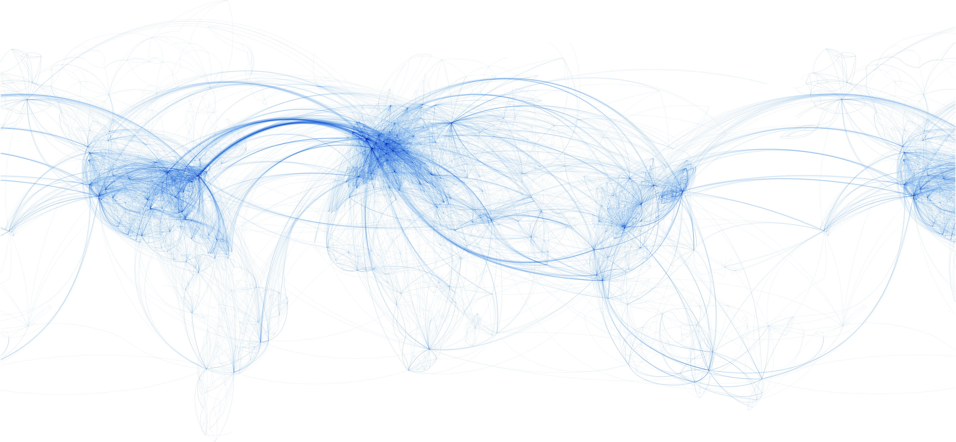 Map of global passenger air routes. This image is generally correct, but not specifically correct. Flights take various routes, and the traffic density portrayed is based on the number of airlines on a particular route, not the number of actual flights. Data from Google Maps, , and individual airline websites. UPDATE Mar 15, 2013: Background map (not visible in final image) was taken from Google Maps, which uses a variant of Mercator projection. The image was made using Illustrator.